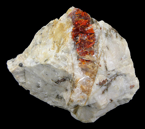 Zincite Locality: Franklin Mine, Franklin, Franklin Mining District, Sussex County, New Jersey, USA (Locality at ) Size: 6.8 x 6.3 x 3.3 cm. A classic specimen of gemmy, lustrous, deep red color crystalline Zincite mixed on contrasting white Calcite matrix. In my experience, it is rare to find Zincite from Franklin that passes light as seen on this specimen. This material is some of the most well known (and easily recognizable) from all of Franklin. A good hand-size specimen from the famous New Jersey collection of Richard A. Kosnar.